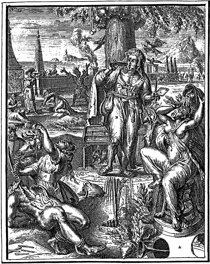 Pagan oracles